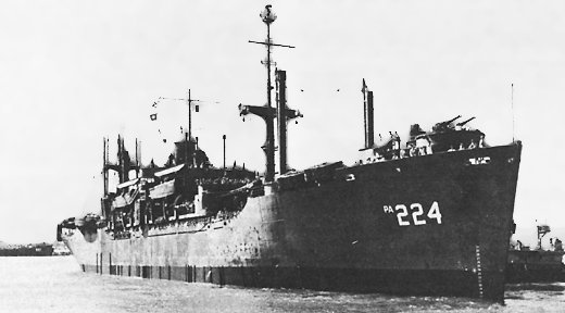 The U.S. Navy attack transport USS Randall (APA-224), circa in 1945.